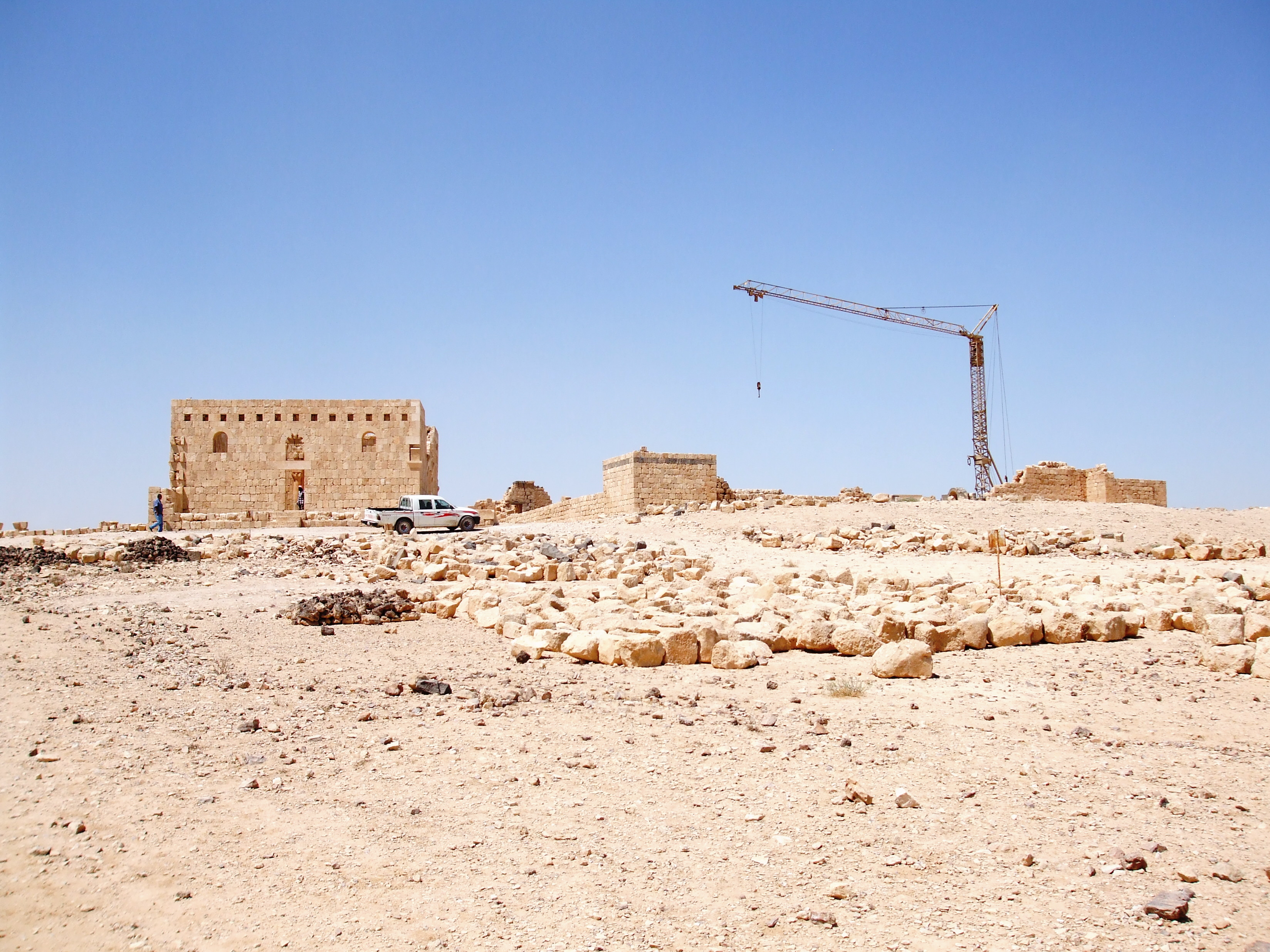 This is a view of the main fort and mosque of Qasr Al Hallabat